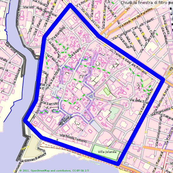 Own work, based on OpenStreetMap data. Image and data released under CC-BY-SA 2.5